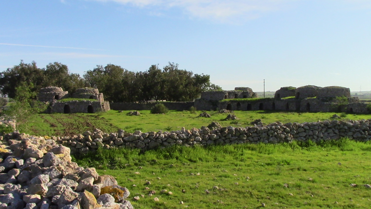 A 7 Tazota complex, Municipality of Sidi Abed, Province of el-Jadida, Morocco